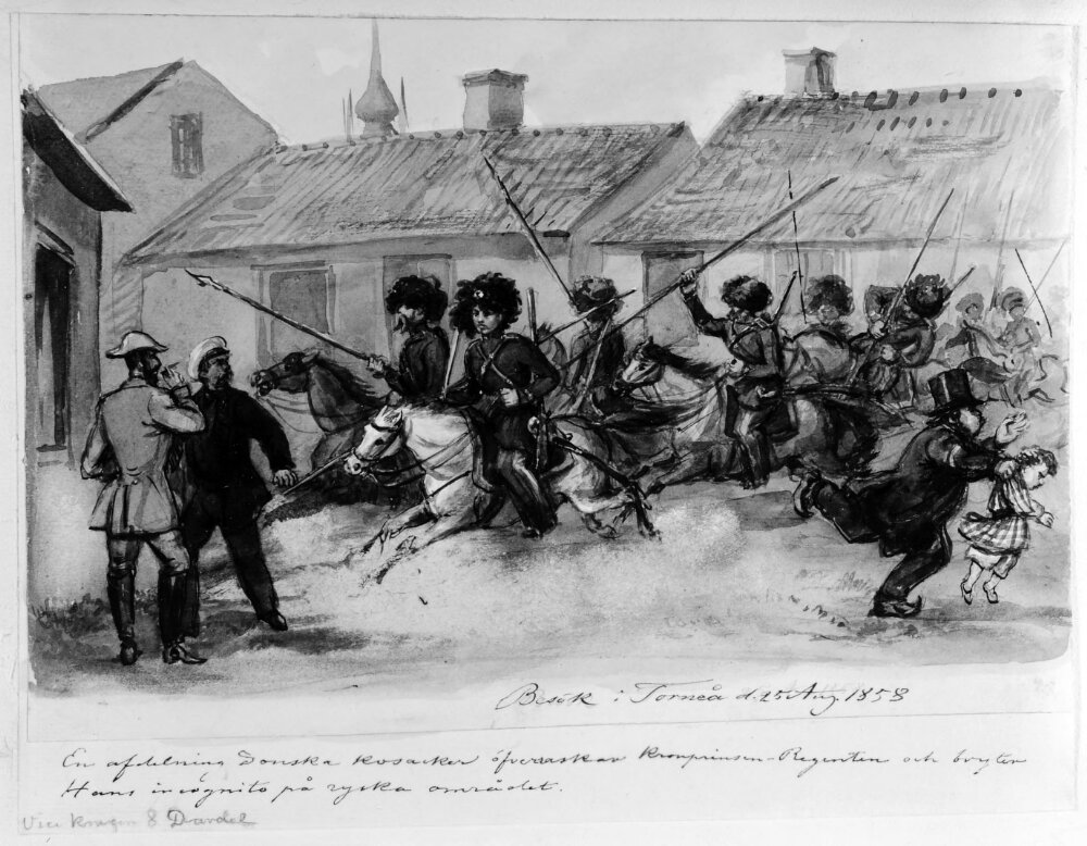 Russian cossacks parade for Charles XV in Tornio in 1858